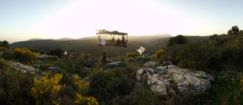 Toby Cohen, The Flying Sukkah (2009)